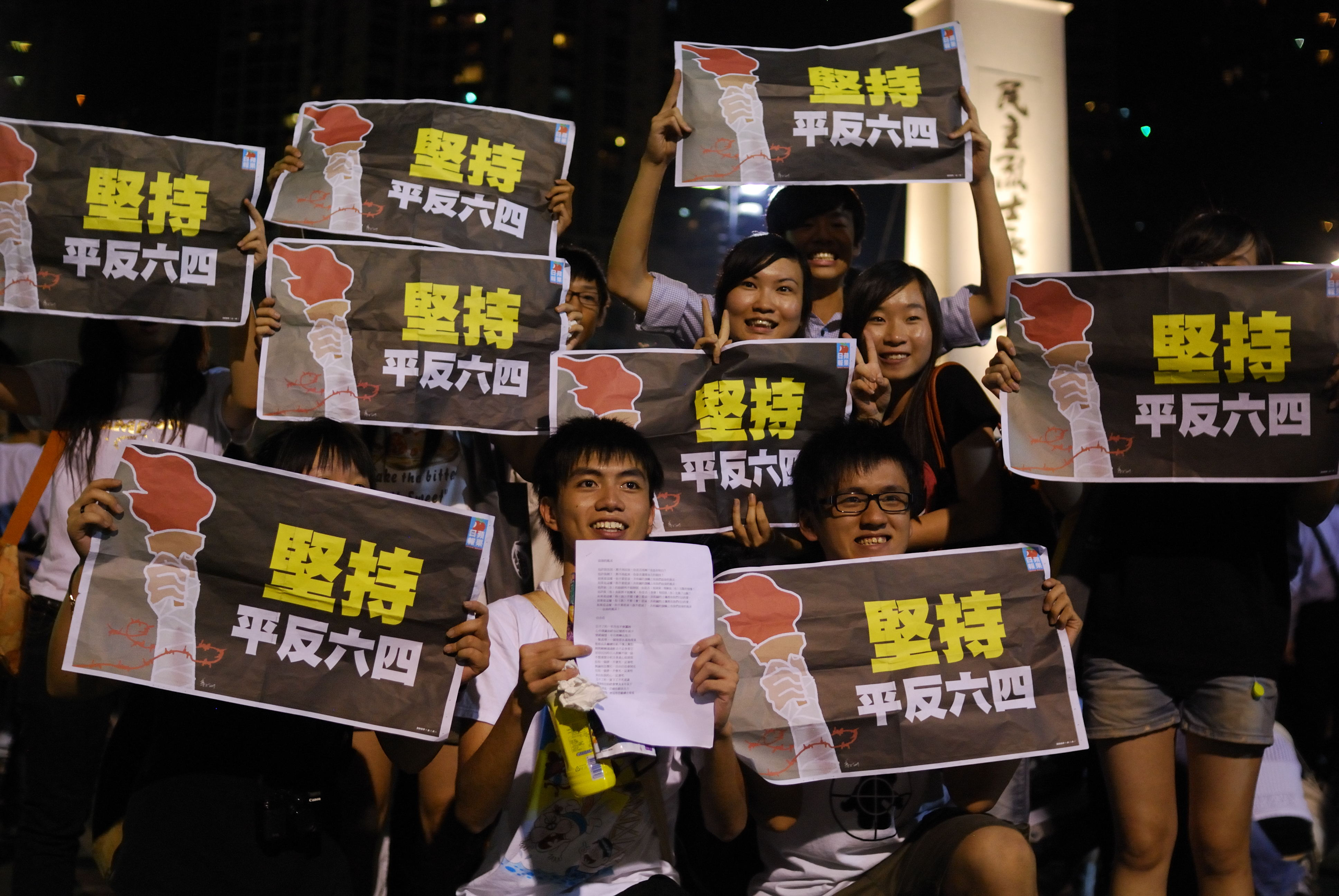 20th anniversary of the June 4th incident. A candlelight vigil was held in HK on June 4, 2009.